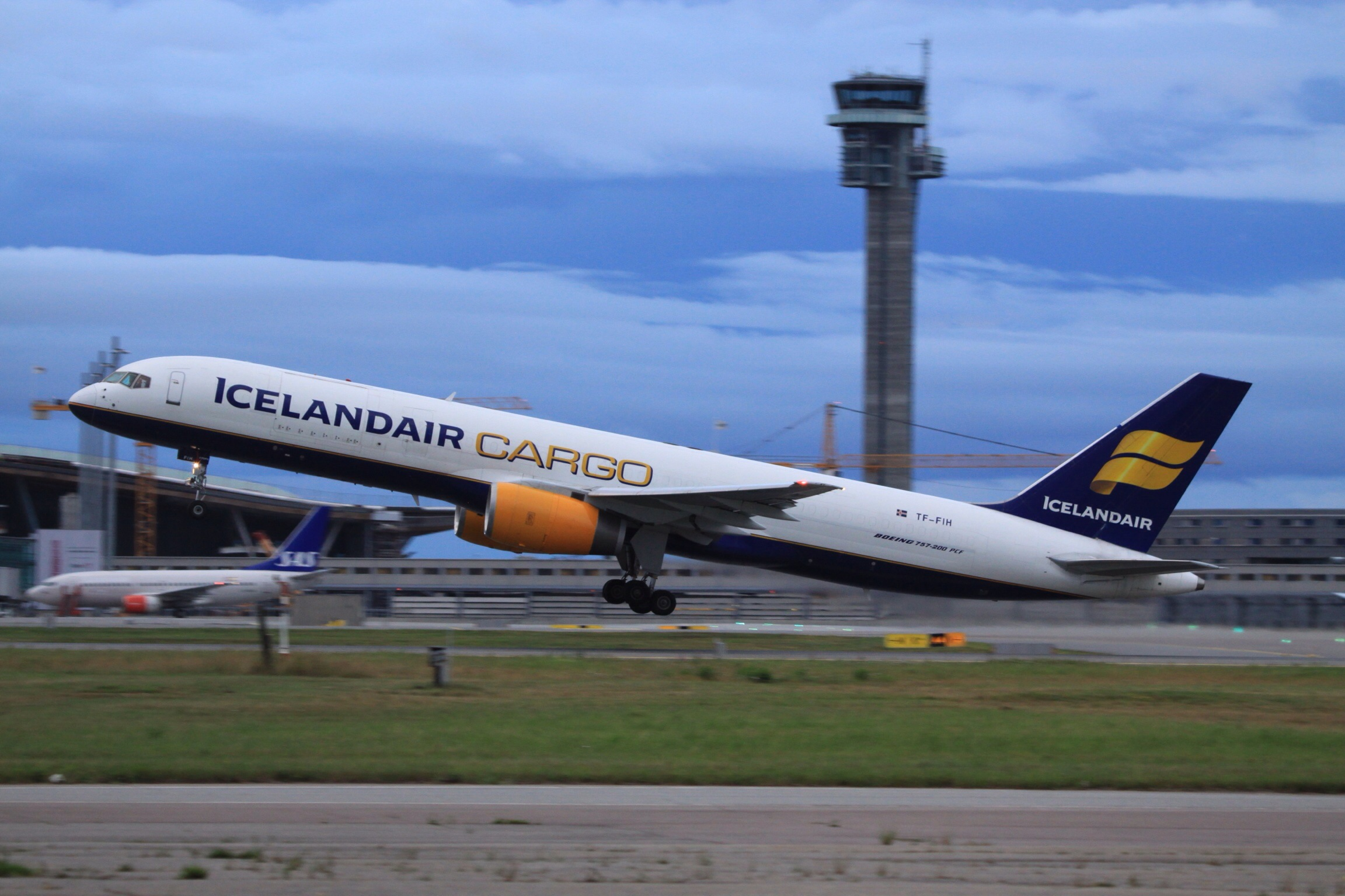 At Oslo Gardermoen